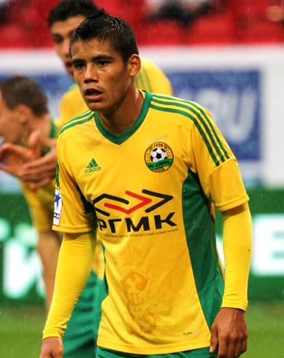 Lorenzo Melgarejo